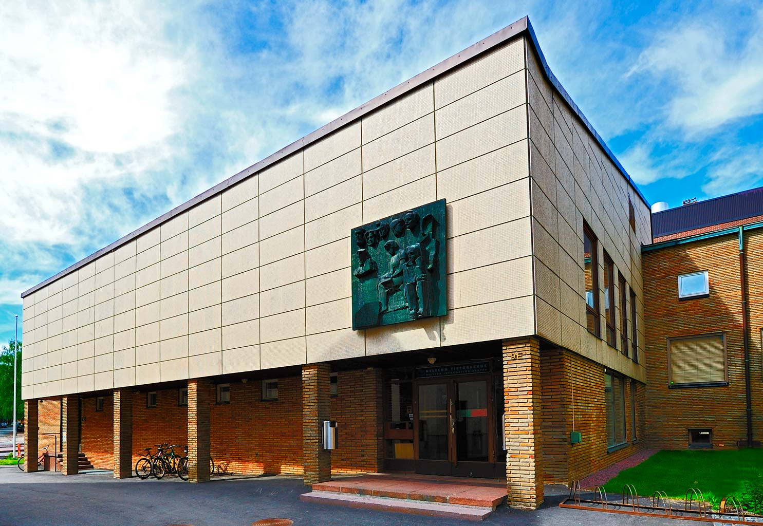 Aalto University Töölö Campus Library in Helsinki Finland. Töölö is a central district of Helsinki.